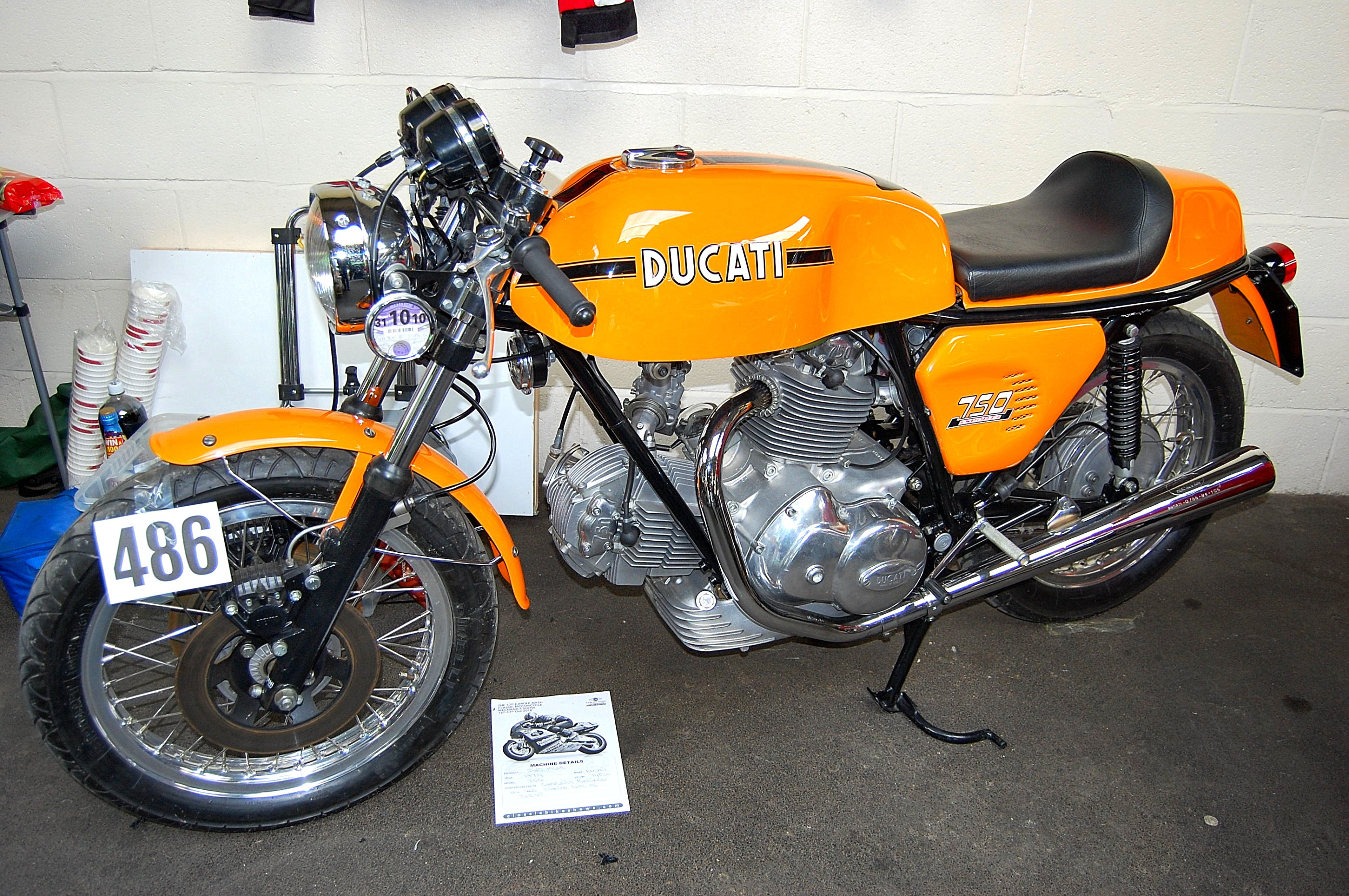 Ducati is best known for high performance motorcycles characterized by large capacity four-stroke, L-twin (90° twin-cylinder)[11] engines featuring a desmodromic valve design.[12] Modern Ducatis remain among the dominant performance motorcycles available today partly because of the desmodromic valve design, which is nearing its 50th year of use. Desmodromic valves are closed with a separate, dedicated cam lobe and lifter instead of the conventional valve springs used in most internal combustion engines in consumer vehicles. This allows the cams to have a more radical profile, thus opening and closing the valves more quickly without the risk of valve-float, which causes a loss of power, that is likely when using a "passive" closing mechanism under the same conditions. While most other manufacturers utilize wet clutches (with the spinning parts bathed in oil)[13] Ducati uses multiplate dry clutches in many of their current motorcycles. The dry clutch eliminates the power loss from oil viscosity drag on the engine even though the engagement may not be as smooth as the oil bath versions, and the clutch plates can wear more rapidly. Ducati also extensively uses the Trellis Steel Frame configuration, although Ducati's MotoGP project broke with this tradition by introducing a revolutionary carbon fibre frame for the Ducati Desmosedici GP9.